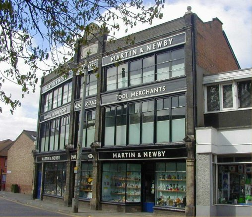 Three story department store